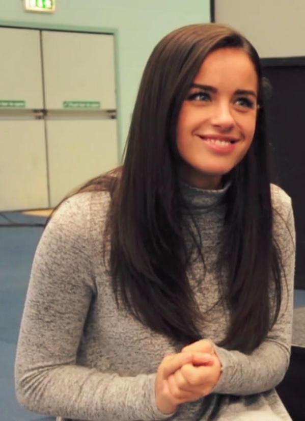 English actress and model Georgia May Foote interviewed at Ullswater Community College's annual Prize Day